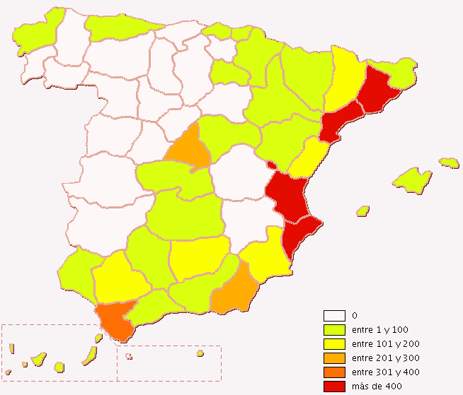 Gilabert surname in Spain